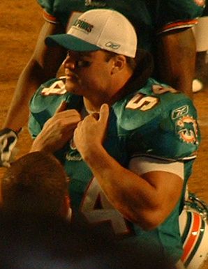 If used somewhere other than Wikipedia, Nelson, by name. Miami Dolphins linebacker Zach Thomas at a preseason game against Tampa Bay Buccaneers on Aug. 8, 2003.